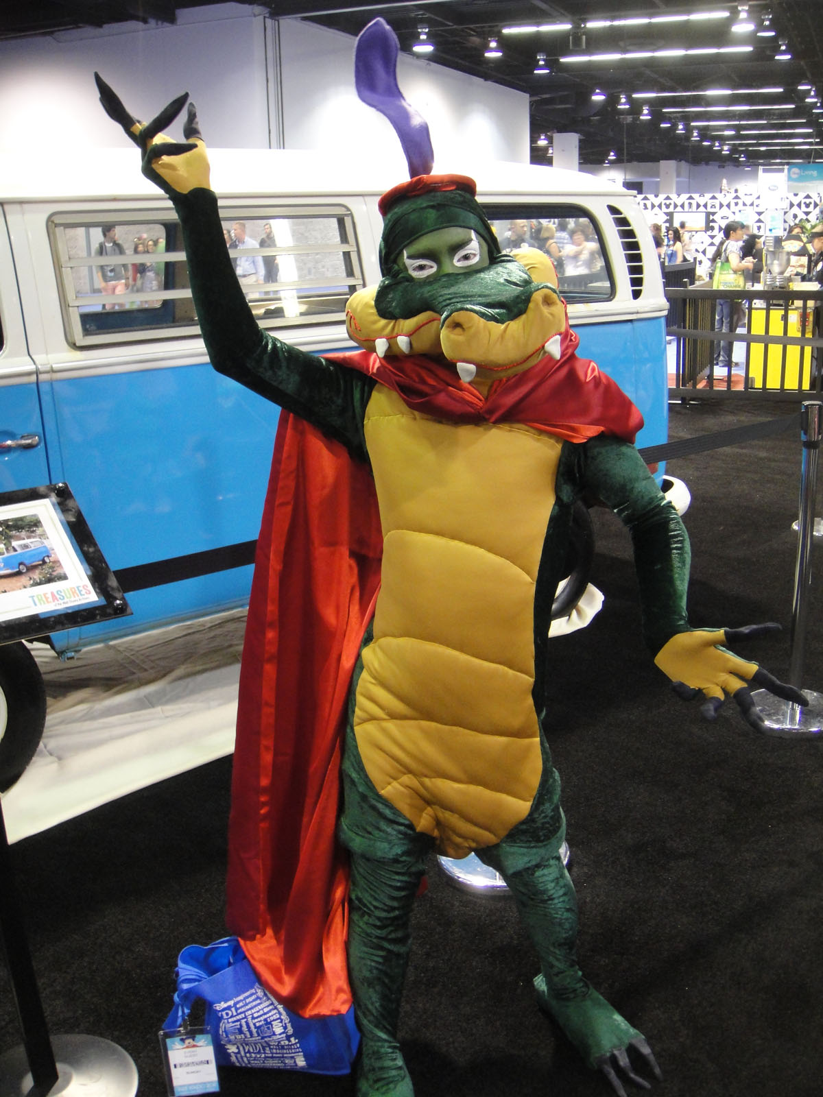 D23 Expo 2011 - Ben Ali Gator from Fantasia